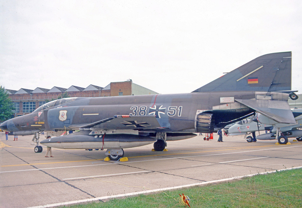 McDonnell F-4F Phantom II 3851 of JG71 German Air Force at RAF Mildenhall in 1978